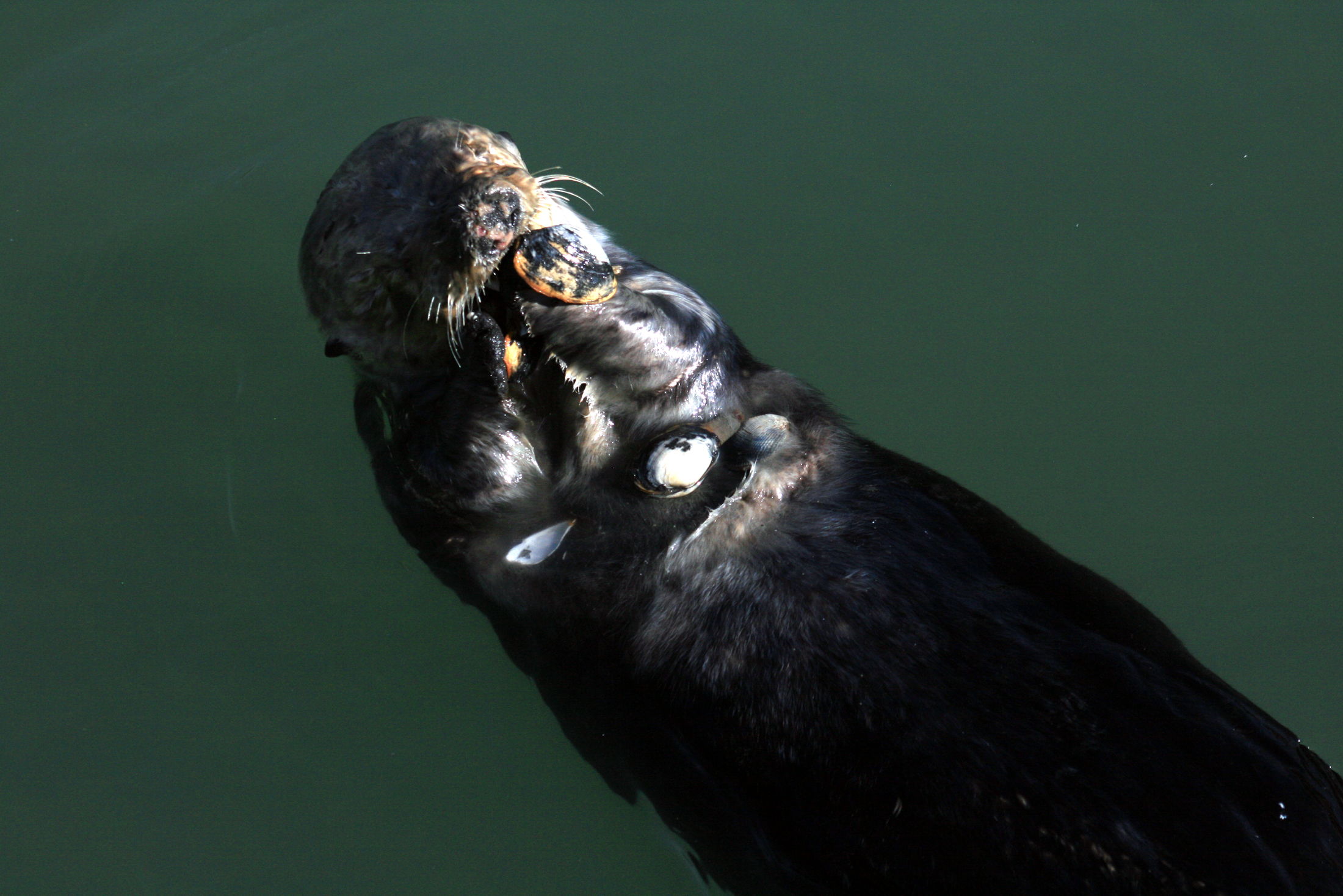 Sea Otter at Moss Landing.Sea otters usually bring up few shels, and while they eat one, they keep the rest on their tummy.